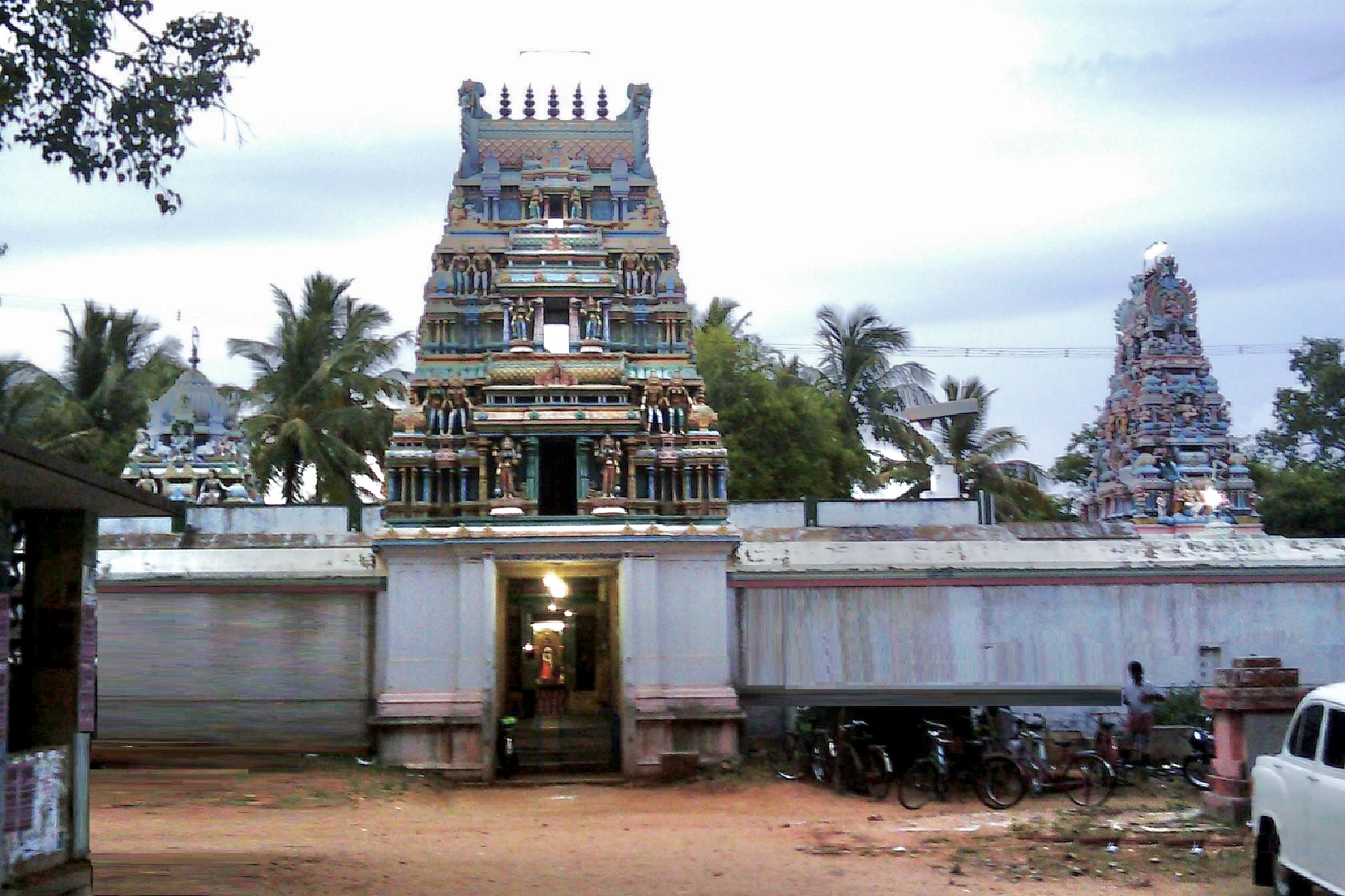 Elevated view of the Lord Sivan temple in the market place of Panayapatti